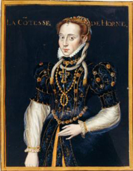 Walburgis van Nieuwenaer (1522-1600). Painting in Österreichischen Nationalbibliothek, Wenen